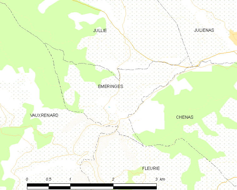 Map of French municipality